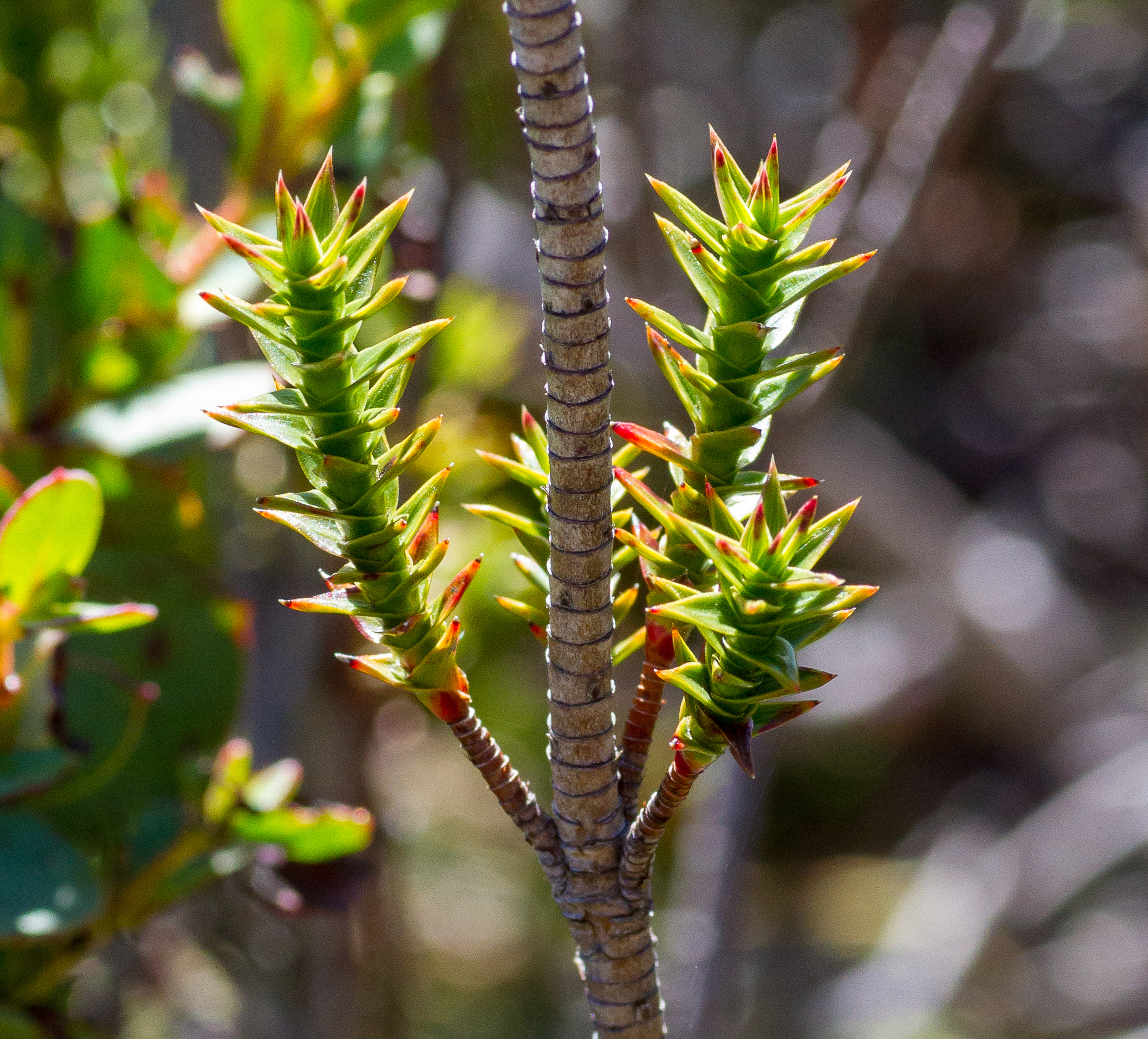 An individual of Richea sprengelioides from Mt Wellington, showing the angular leaf scars on its stem.